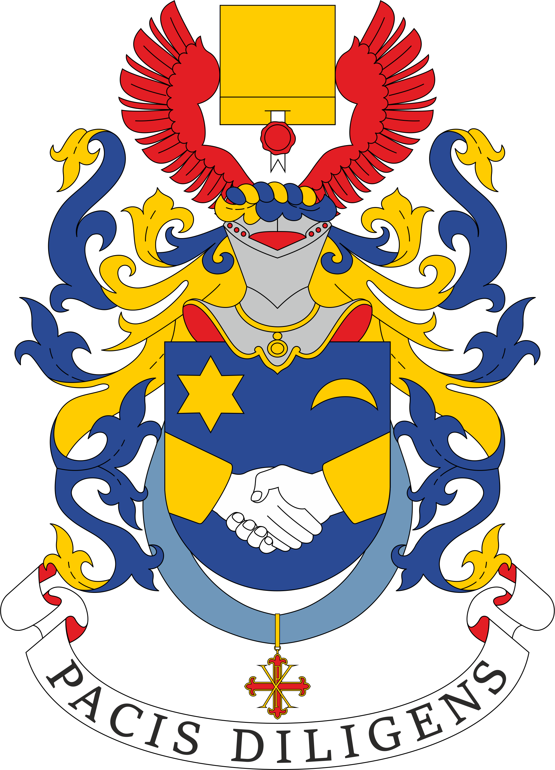 Personal coat of arms of Ľubomír Rehák, Slovak diplomat